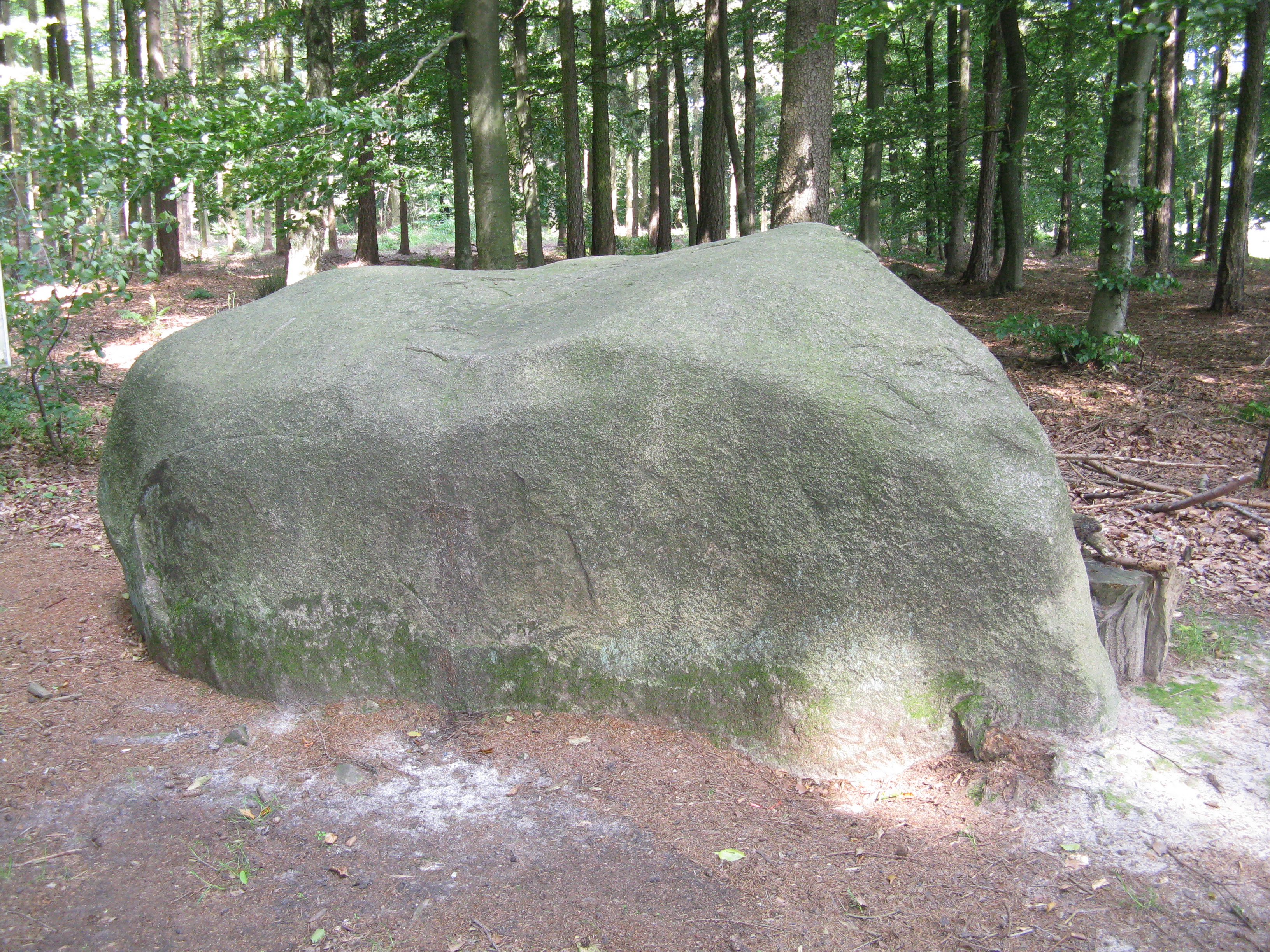 Belm: erratic block "Butterstone" in Vehrte